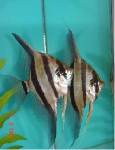 Very well conditioned pair of Pterophyllum altum owned by Eduardo Gomez of Macon, Georgia, USA Category:Cichlid images